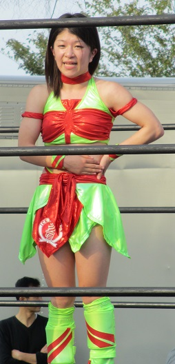 Japanese professional wrestler,Tsukushi. Oct 26 2014, Ice Ribbon Higashi-Washinomiya.